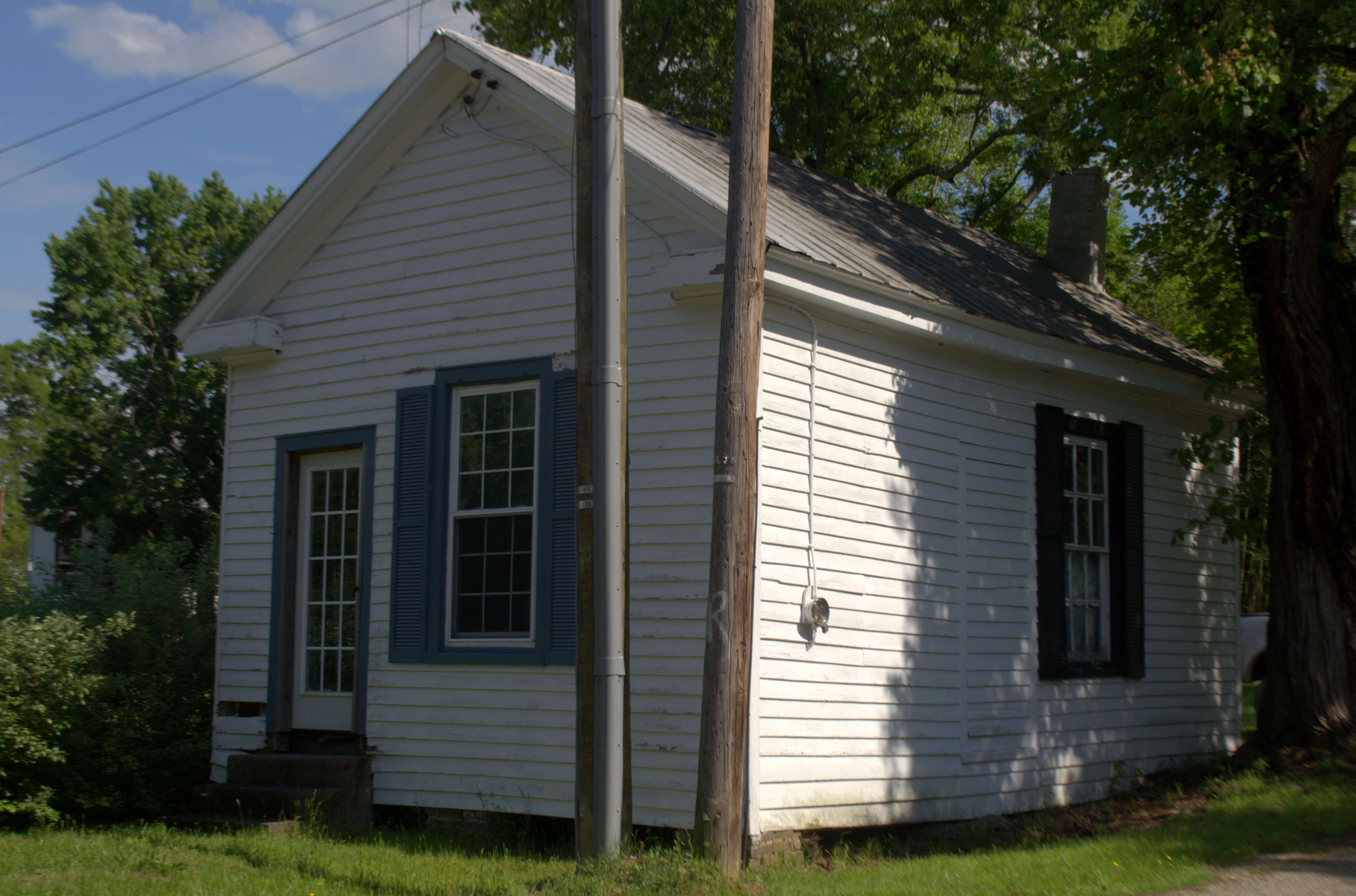 Moseley Junction 1891 building at 1919 Moseley Road, Powhatan County, Virginia which had a Closed-pouch Mail system with the Farmville and Powhatan Railroad.